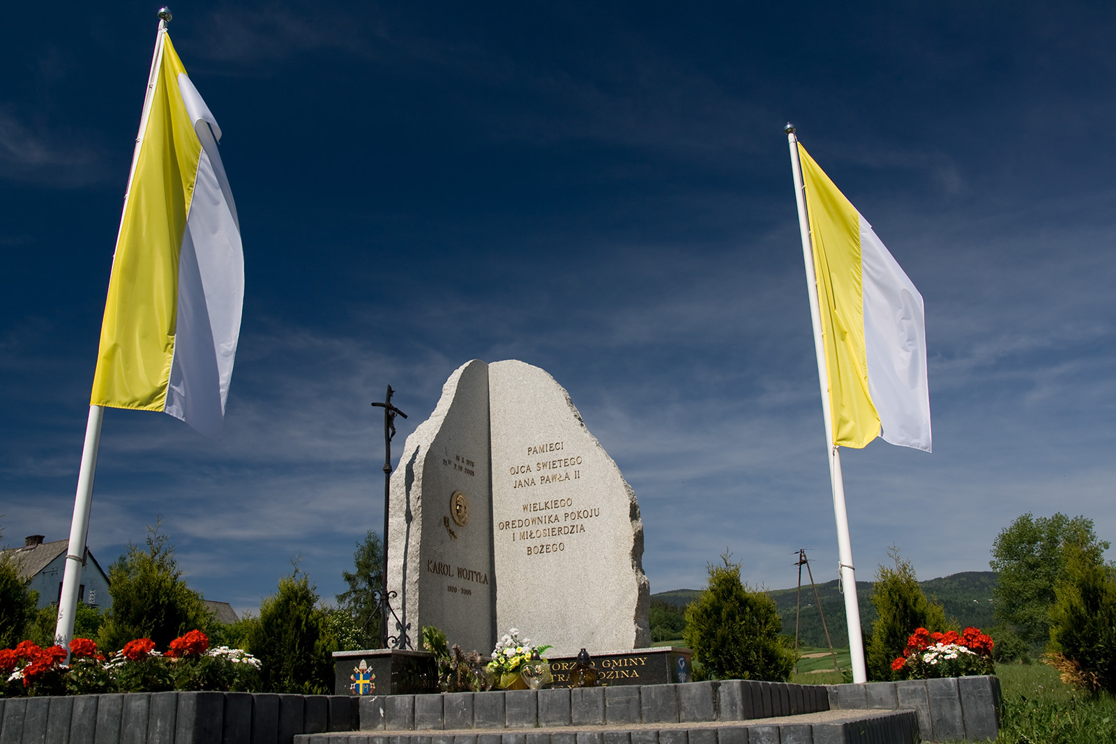 Memorial to the pope in Sidzinie